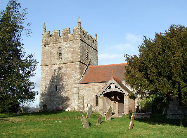 Holy Trinity Church at Holdgate, Shropshire There is a sheela on the south facing wall. and type in Holdgate for pictures of this and other artifacts.